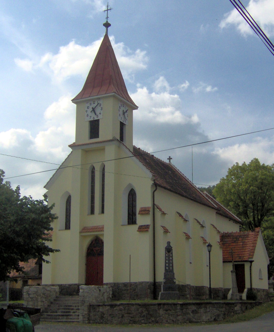 Church of saint Ludmila in Zadní Zborovice, part of Třebohostice, Strakonice District, Czech republic